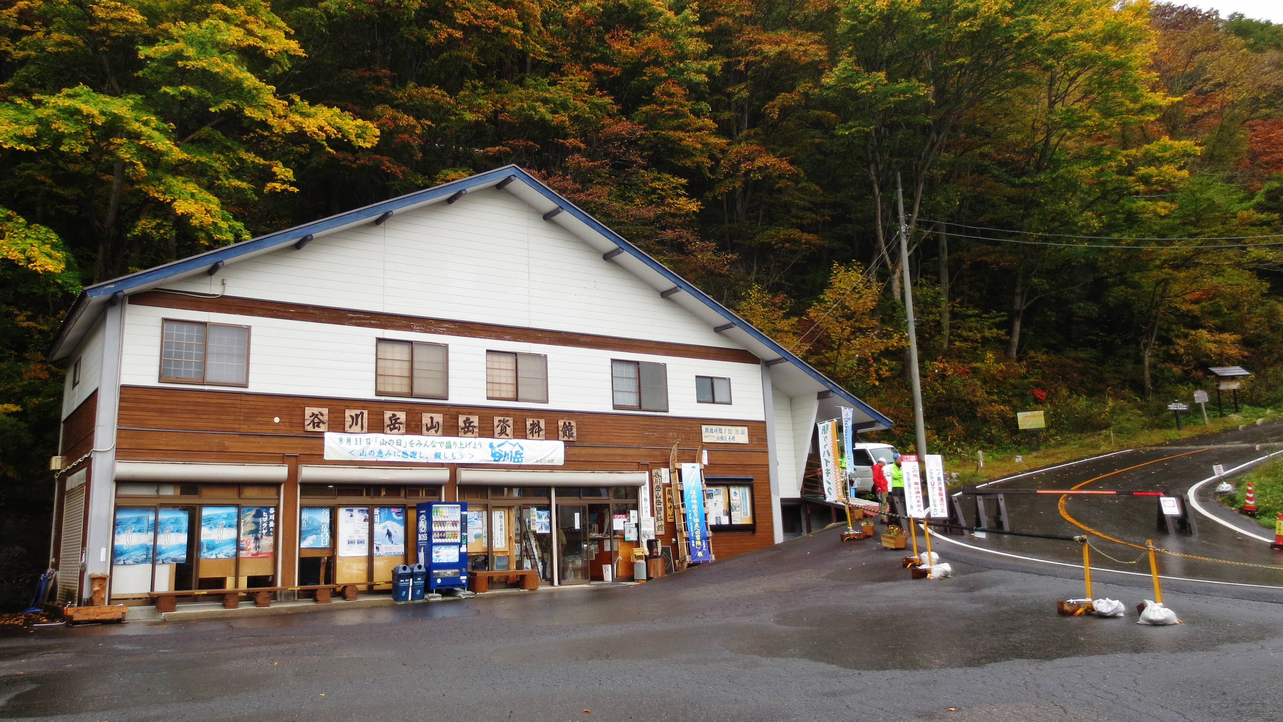 Mount Tanigawa Museum.